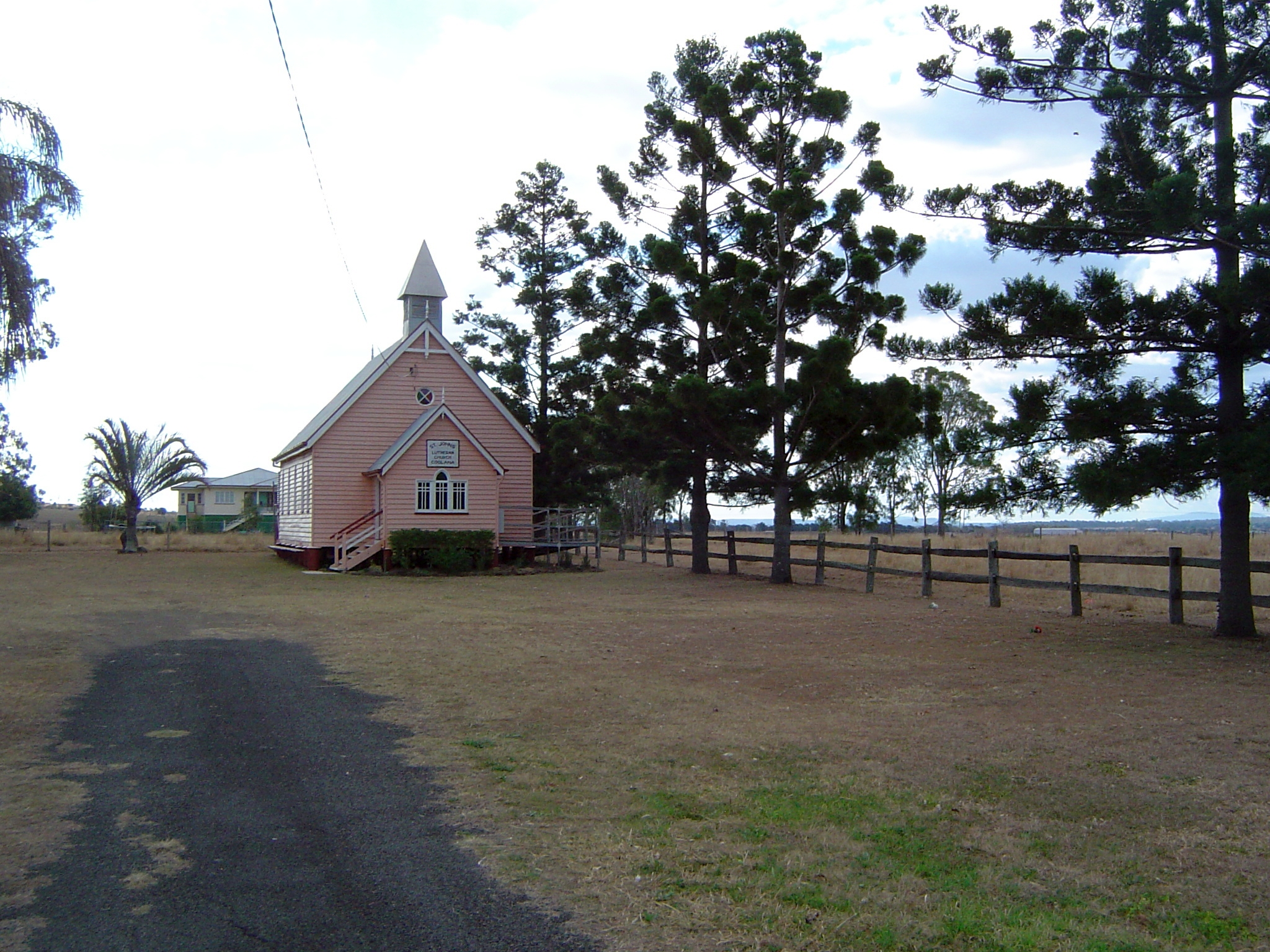 Photo of Lutheran Church at Minden, Somerset Region, Queensland, Australia.